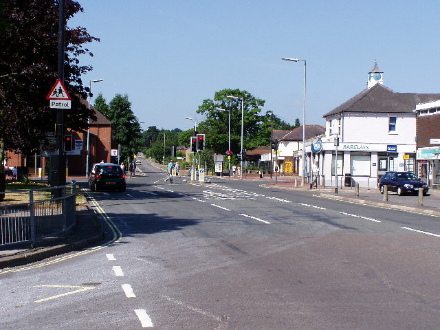 Hedge End Village Looking in the direction of Upper Northan Road